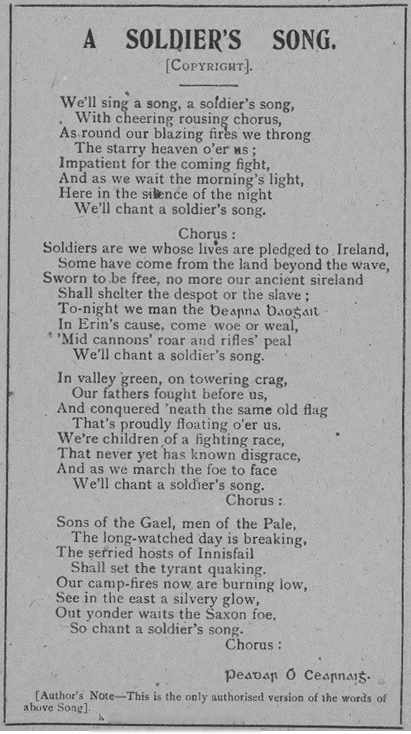 Irish national anthem lyrics from 1916.